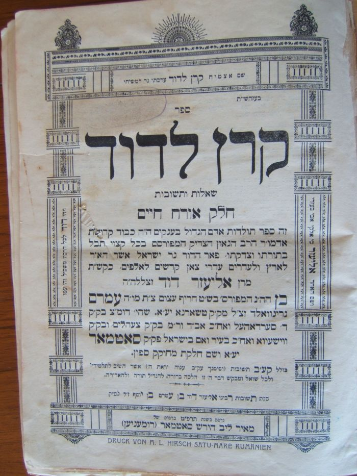 KEREN LEDAVID Responsa book, Satmar 1929